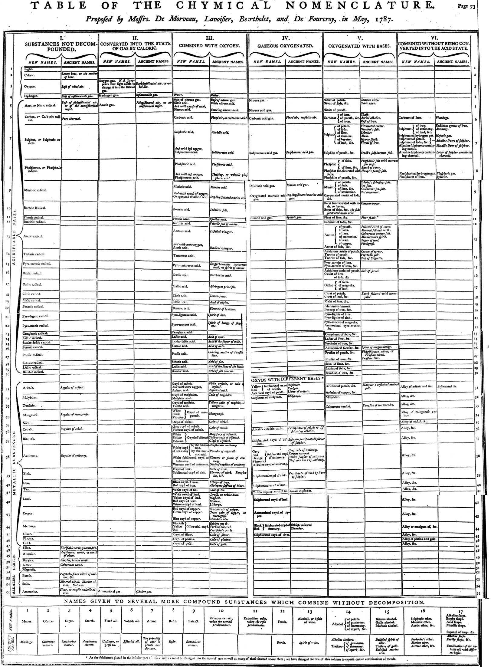 Table of the Chymical Nomencalture, from Méthode de Nomenclature Chimique. Paris (1787)